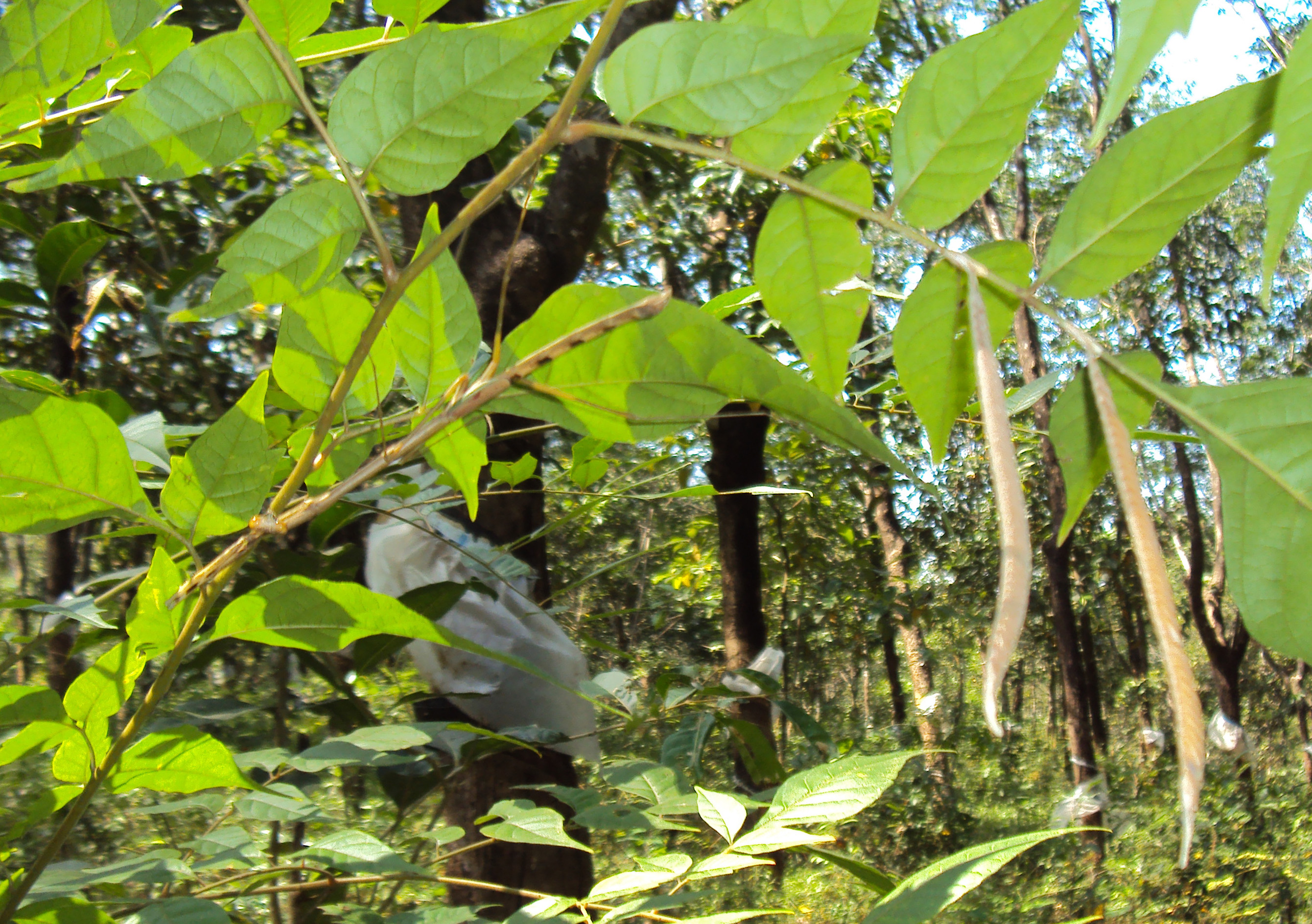 Praying Mantis eggs on the leaves of Chukrasia tabularis